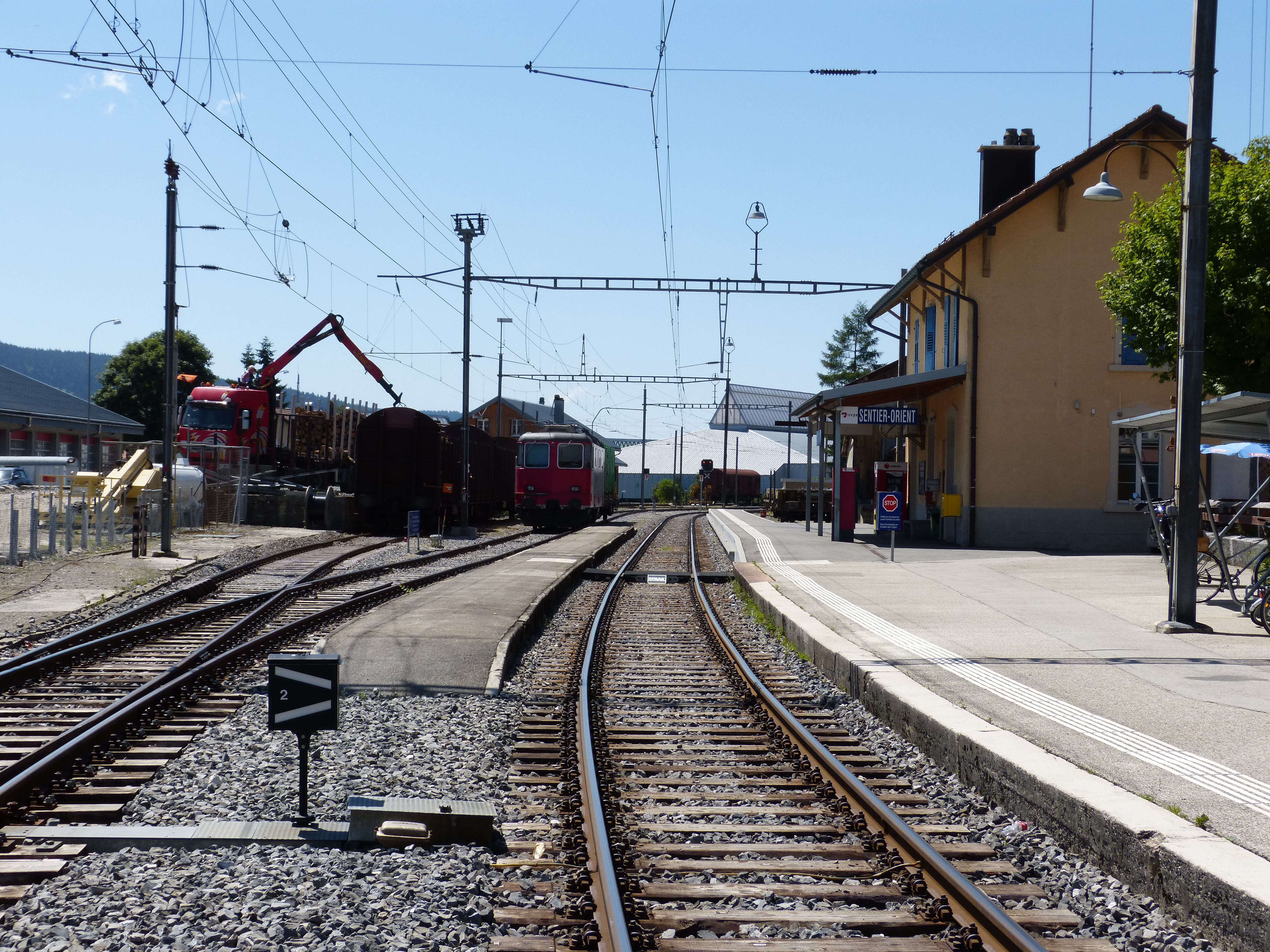 North view of the railway station Sentier-Orient.